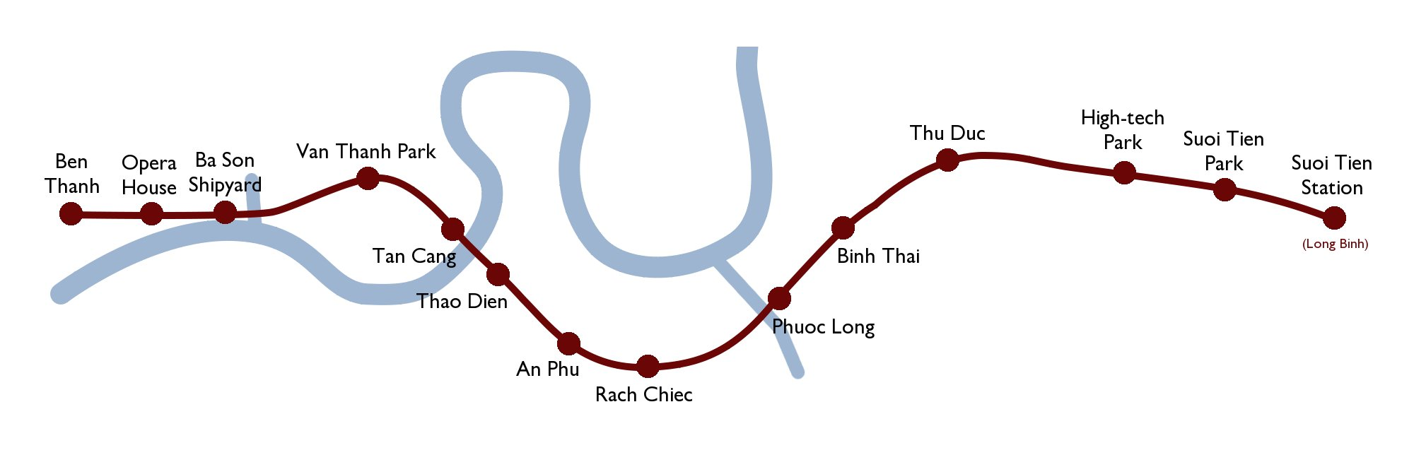 Map of the projected Line 1 of the HCMC Metro, including stations.